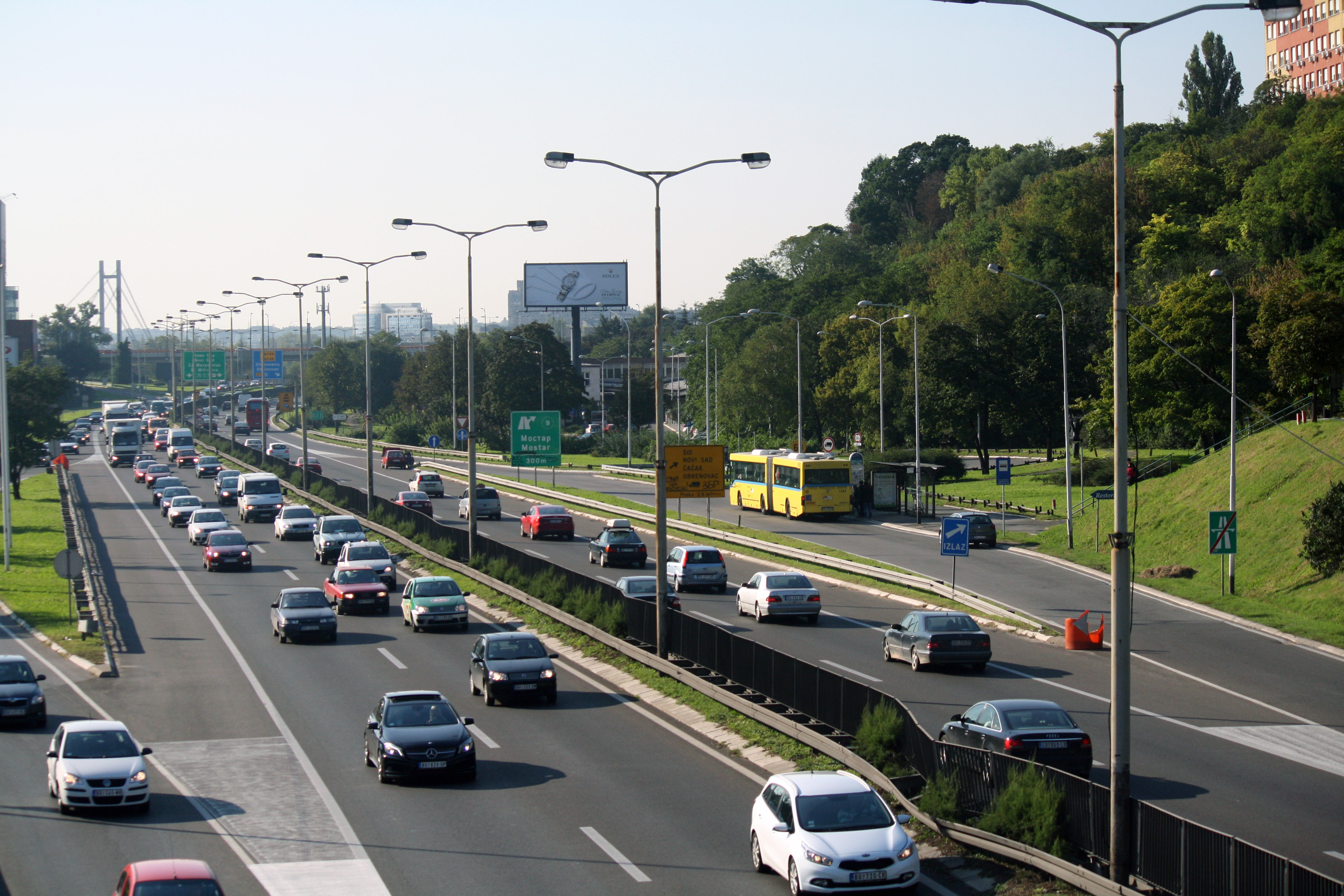 A3 motorway in Belgrade.